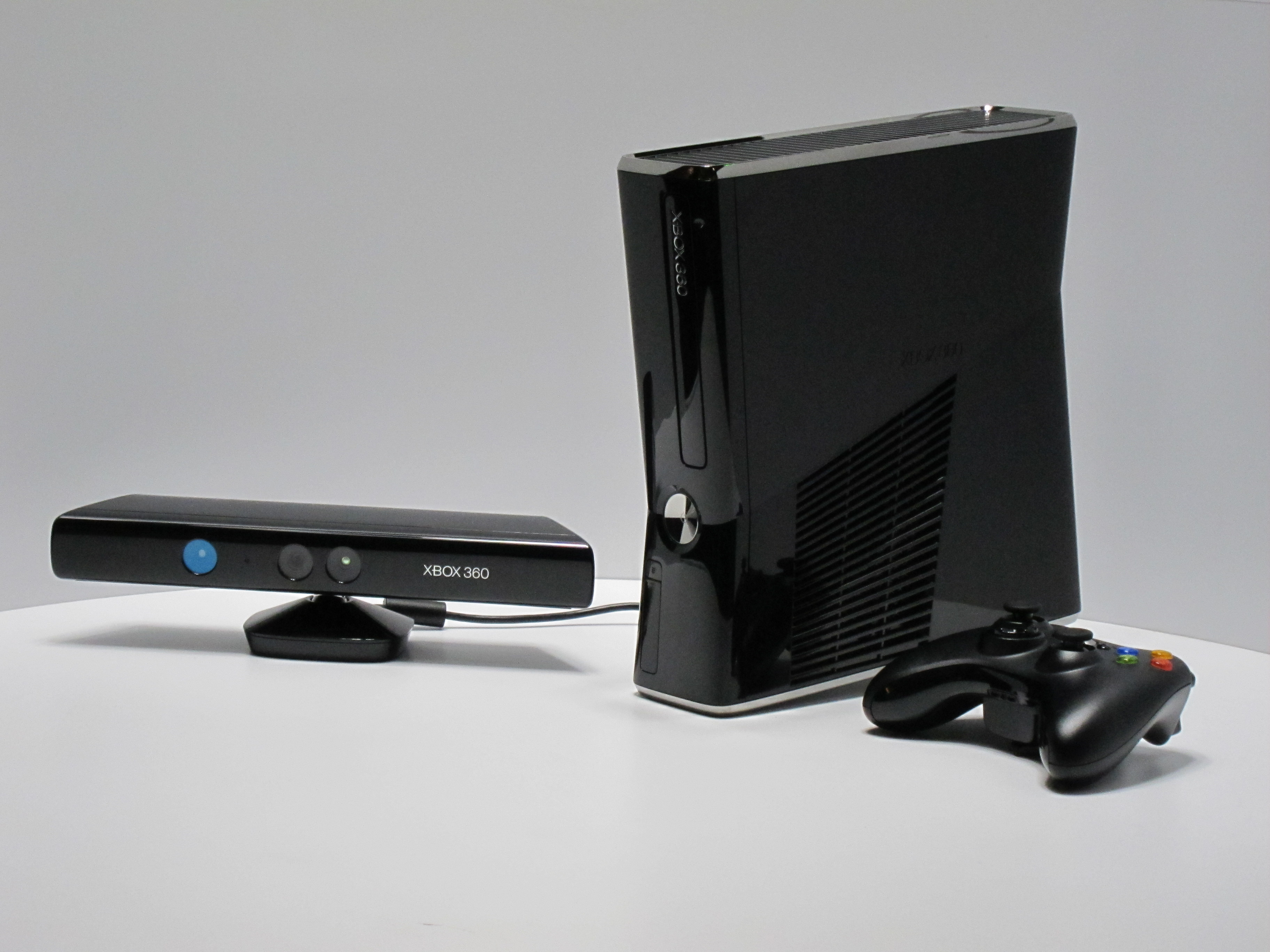 Kinect sensor and Xbox 360 as shown at the 2010 Electronic Entertainment Expo